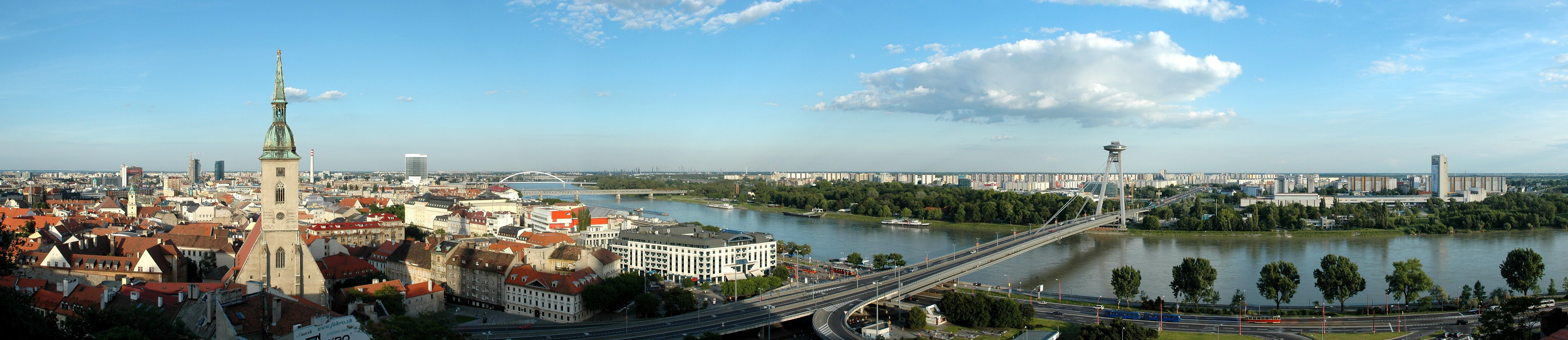 Panorama of Bratislava (from Castle)